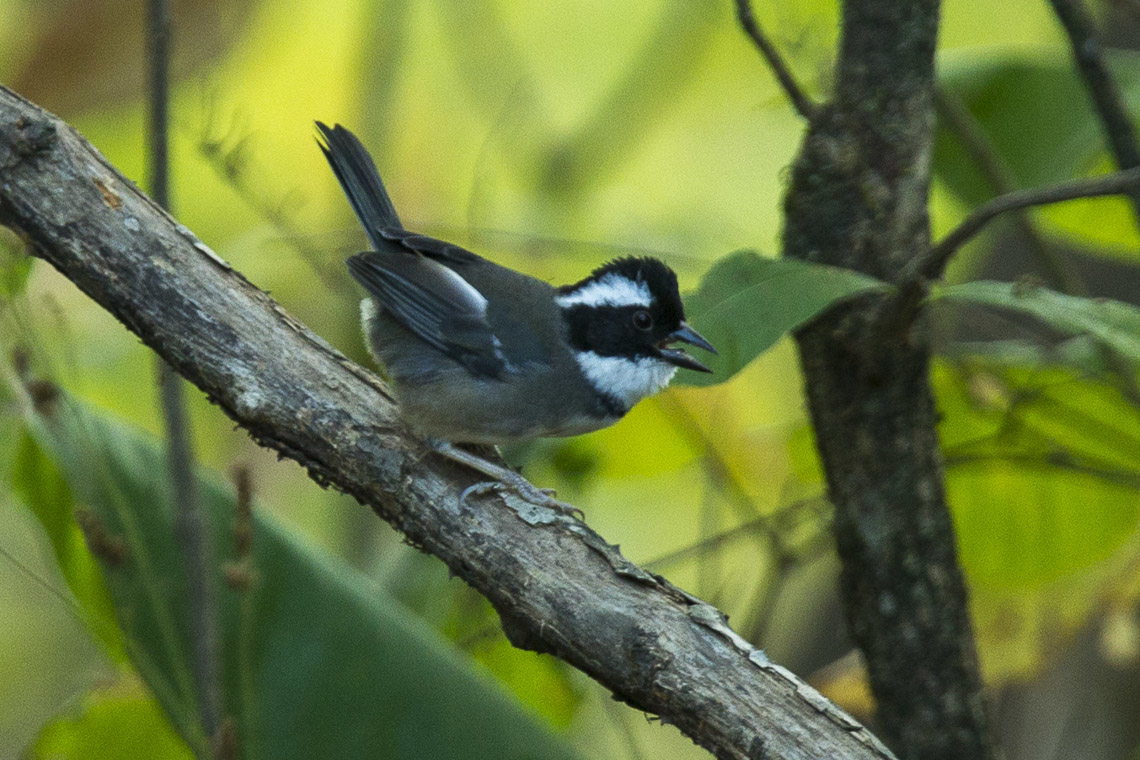 Black-capped Sparrow - South Ecuador_S4E9265